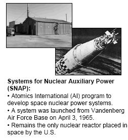 This depicts a SNAP reactor developed at the Santa Susana Field Laboratory. This picture was taken from a federal government website